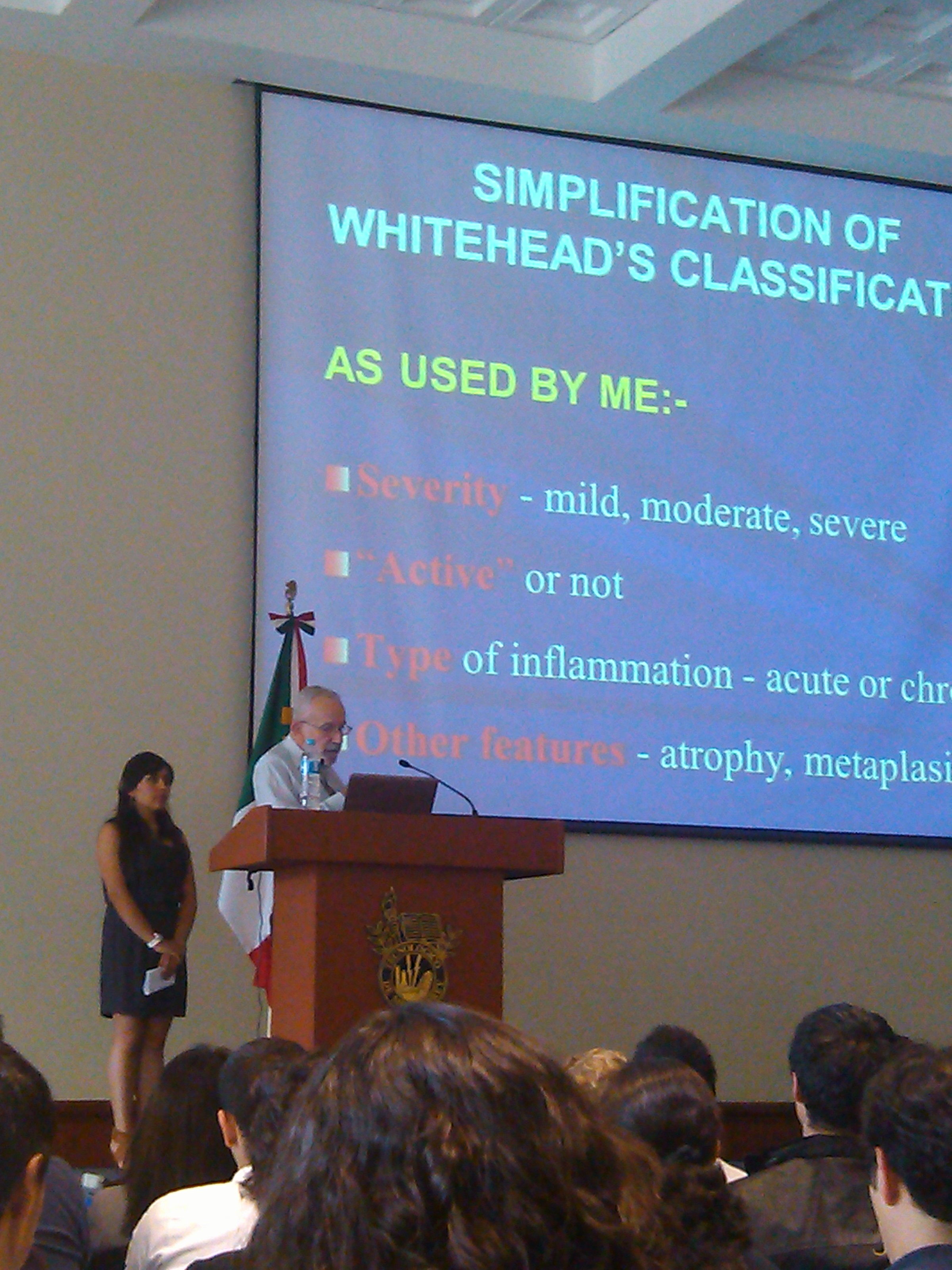 Dr. John Robin Warren speaking at ITESM- Campus Ciudad de México